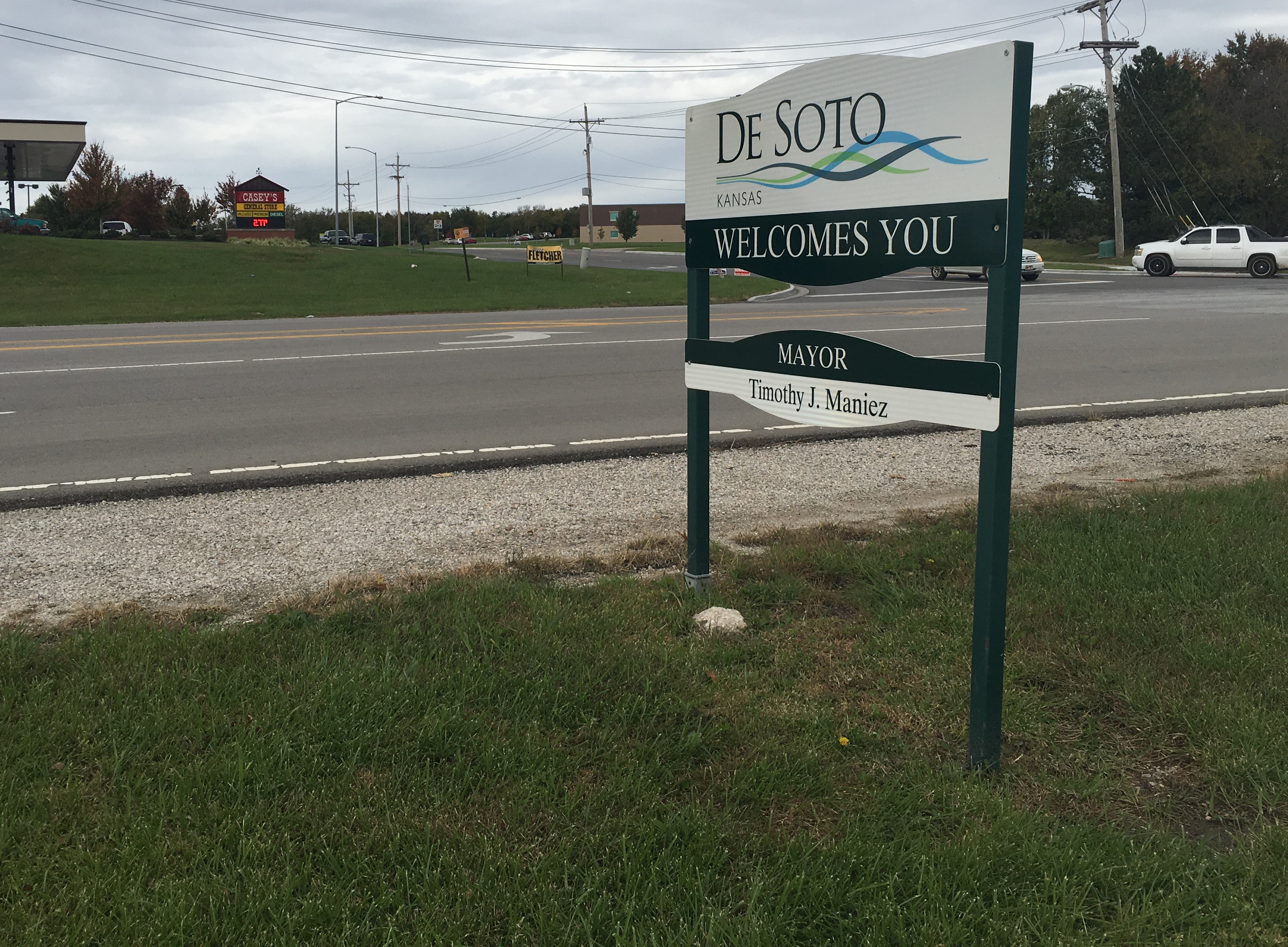 De Soto KS Welcome sign